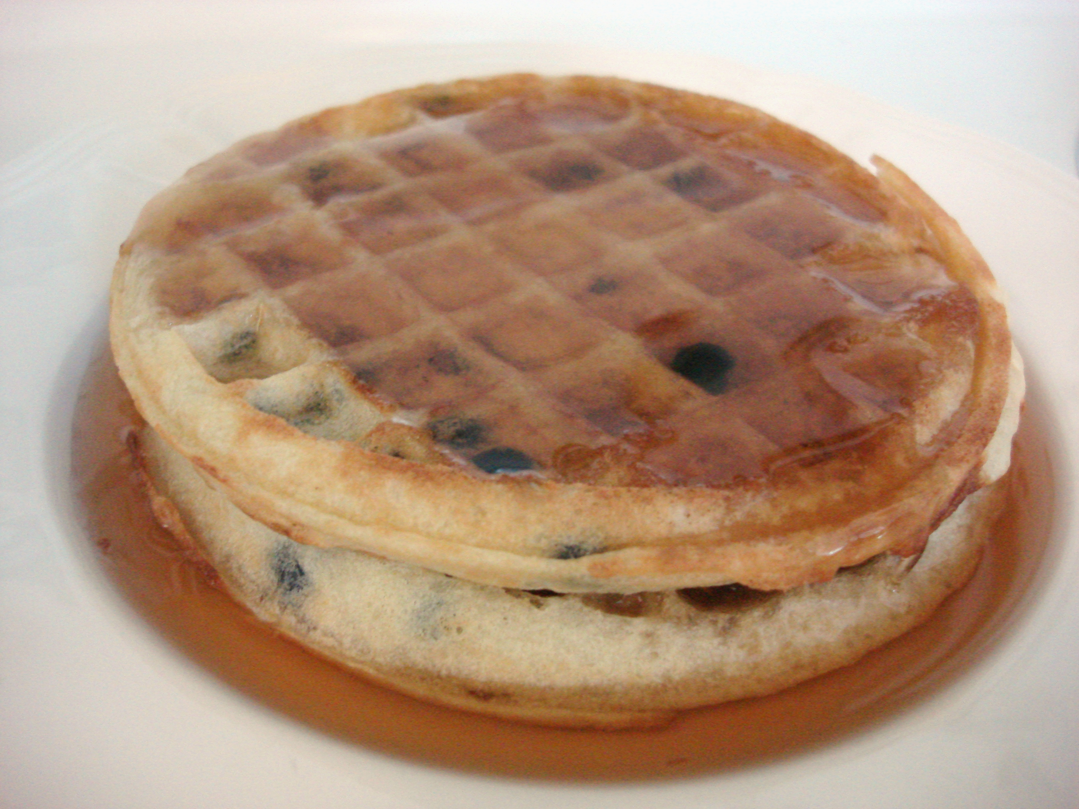 Photograph of two Eggo's toaster waffles with maple syrup.